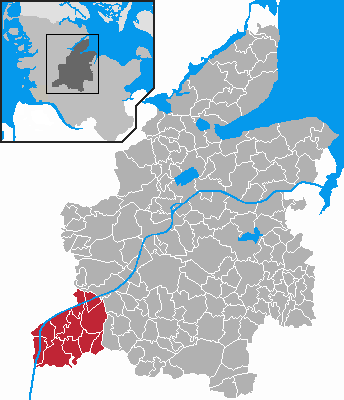 This map shows the area of the Amt (county) Hanerau-Hademarschen in the Kreis (district) Rendsburg-Eckernförde, Schleswig-Holstein, Germany.